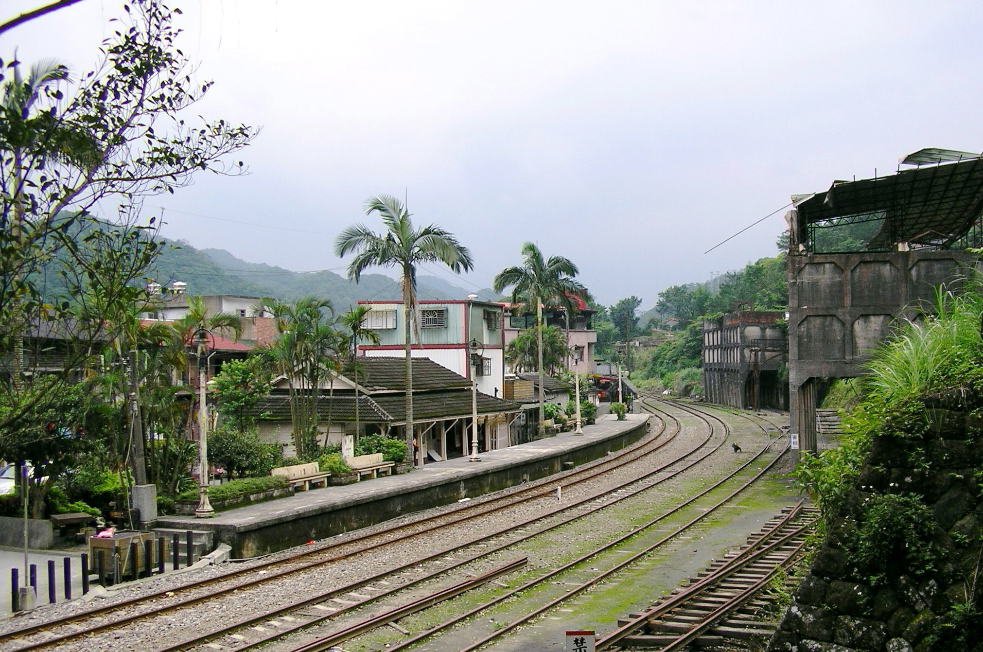 TRA Jingtong Station at the end of the Pingsi Line.